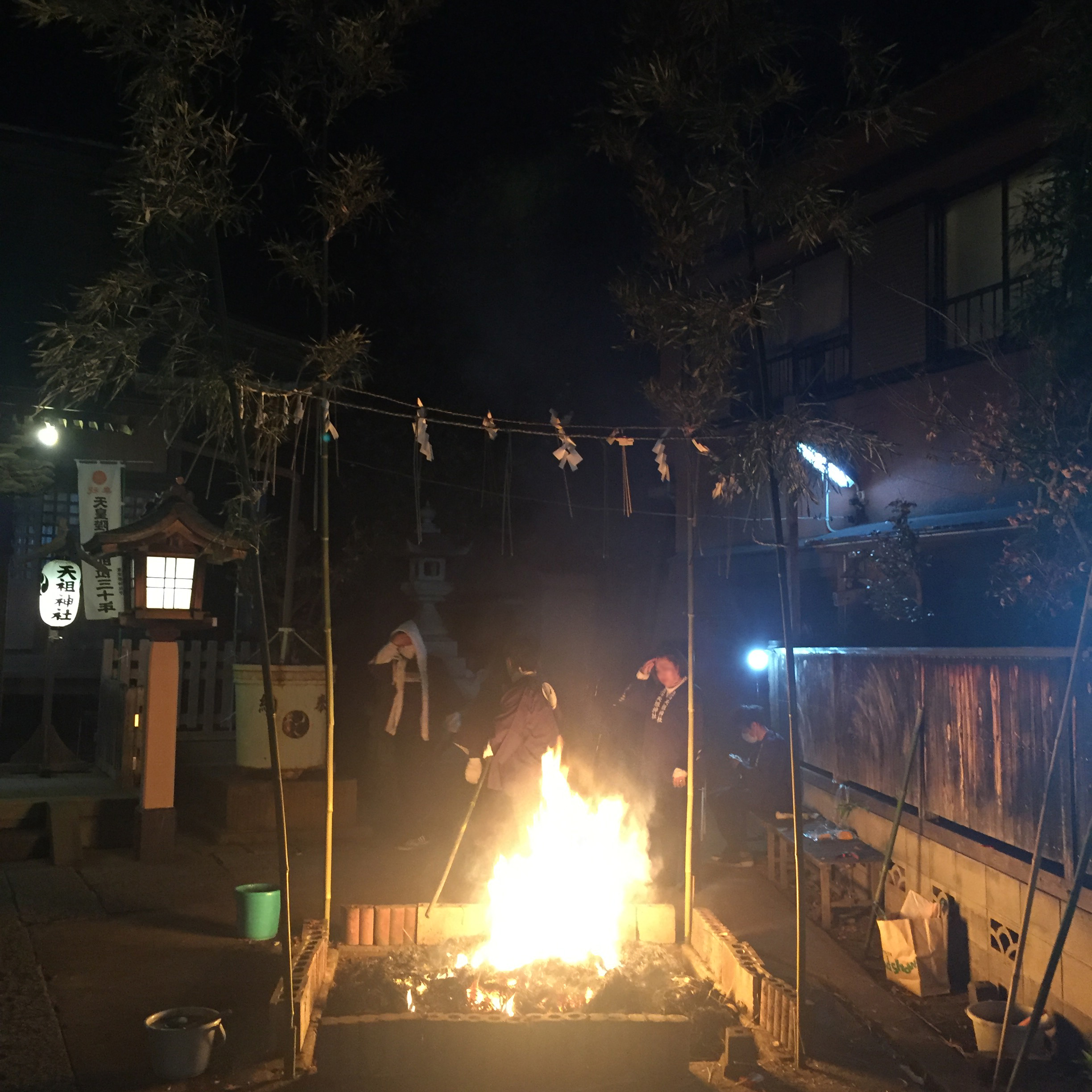 OTAKIAGE or a ritual bonfire in a shrine. Taken at Koenji Tenso Jinja, Suginami City, Tokyo.